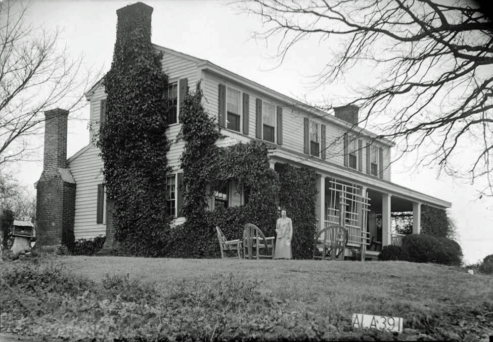 National Register of Historic Places in Alabama. James Greer Bankhead House, Wolf Rd (U.S. Route 278), Sulligent, Alabama. NORTH WEST ELEVATION (FRONT) Call Number: HABS ALA,38-SUL,1-1 Created/Published: Documentation compiled after 1933. Notes: Survey number HABS AL-391. Building/structure dates: 1853-1855 initial construction.